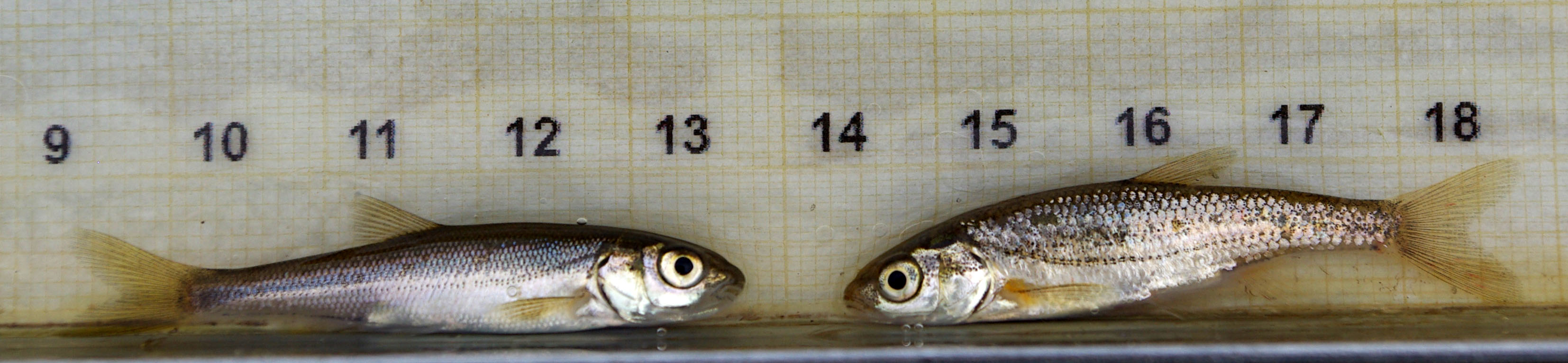 Larvae of Northern straight-mouth nase (Pseudochondrostoma duriense) (left) and Bermejuela (Achondrostoma arcasii) (right). River Torío. (León, Spain).